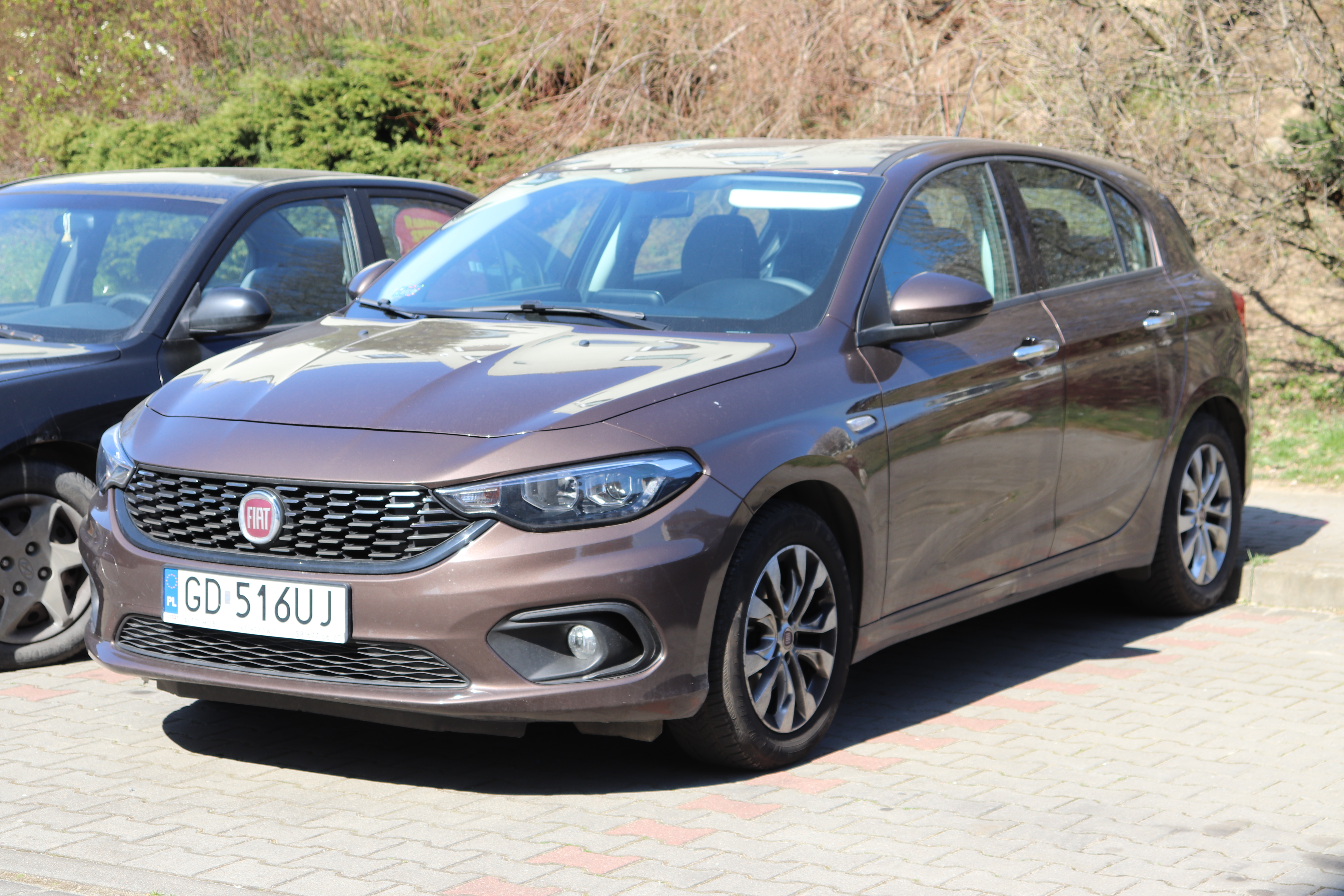 Gdańsk - Fiat Tipo